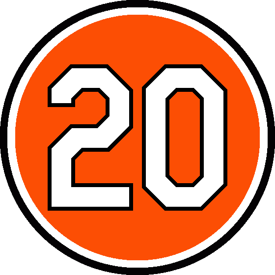 The number "20", retired for Frank Robinson by the Baltimore Orioles.